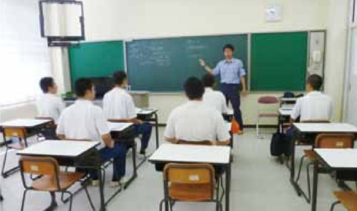 Guidance in school courses at juvenile training schools